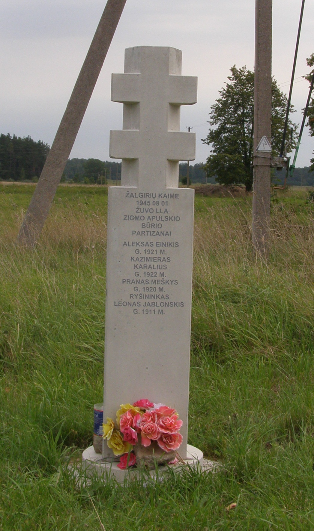 Žalgiriai, Skuodas district, LithuaniaLietuvių: Partizanų atminimo vieta Žalgirių k., Skuodo rajonas, Lietuva